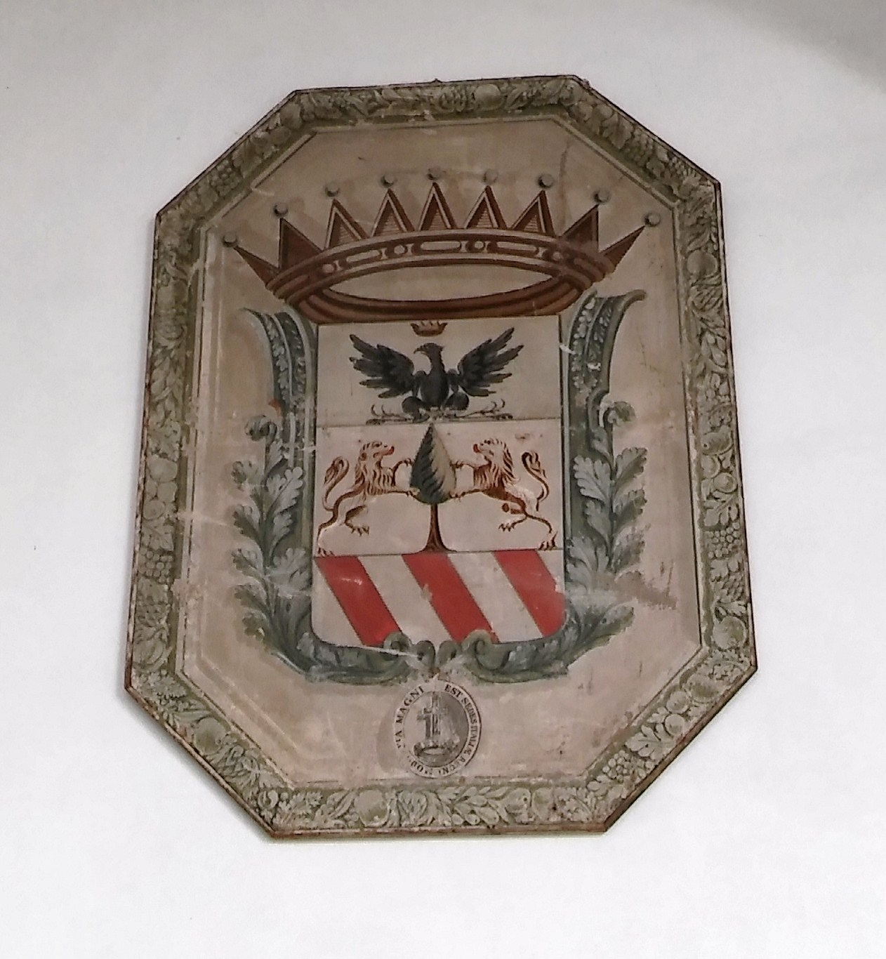 Coat of arms of house Durini in palazzo Durini di Monza